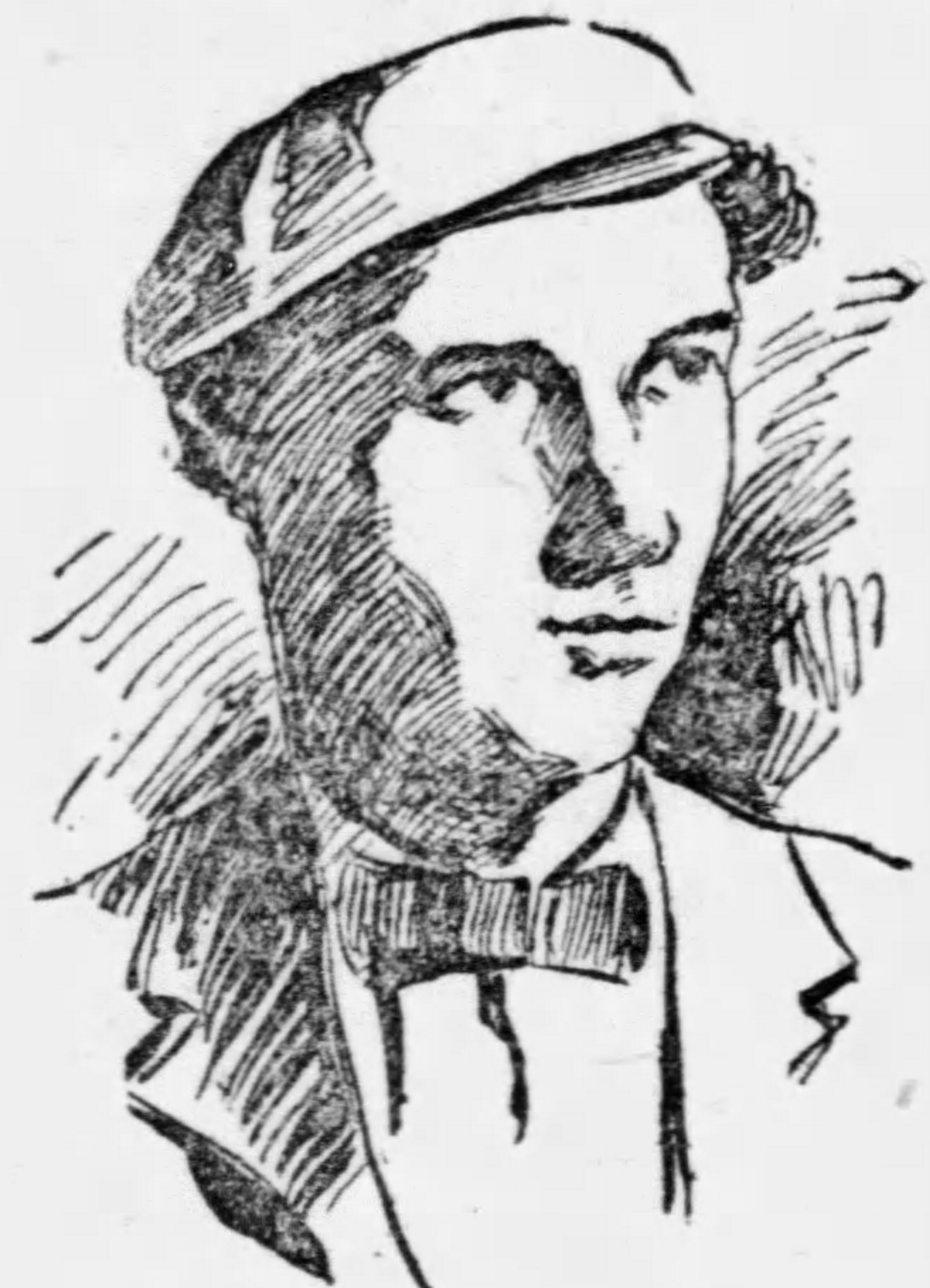 Under headline, “Caught the Gold Fever,” drawing of Clair Kenamore, age 21, who is on his way to the Klondike with Paul H. Sankey. Both are from Salem, Dent County, Missouri. St. Louis Post-Dispatch Jul 25, 1897.